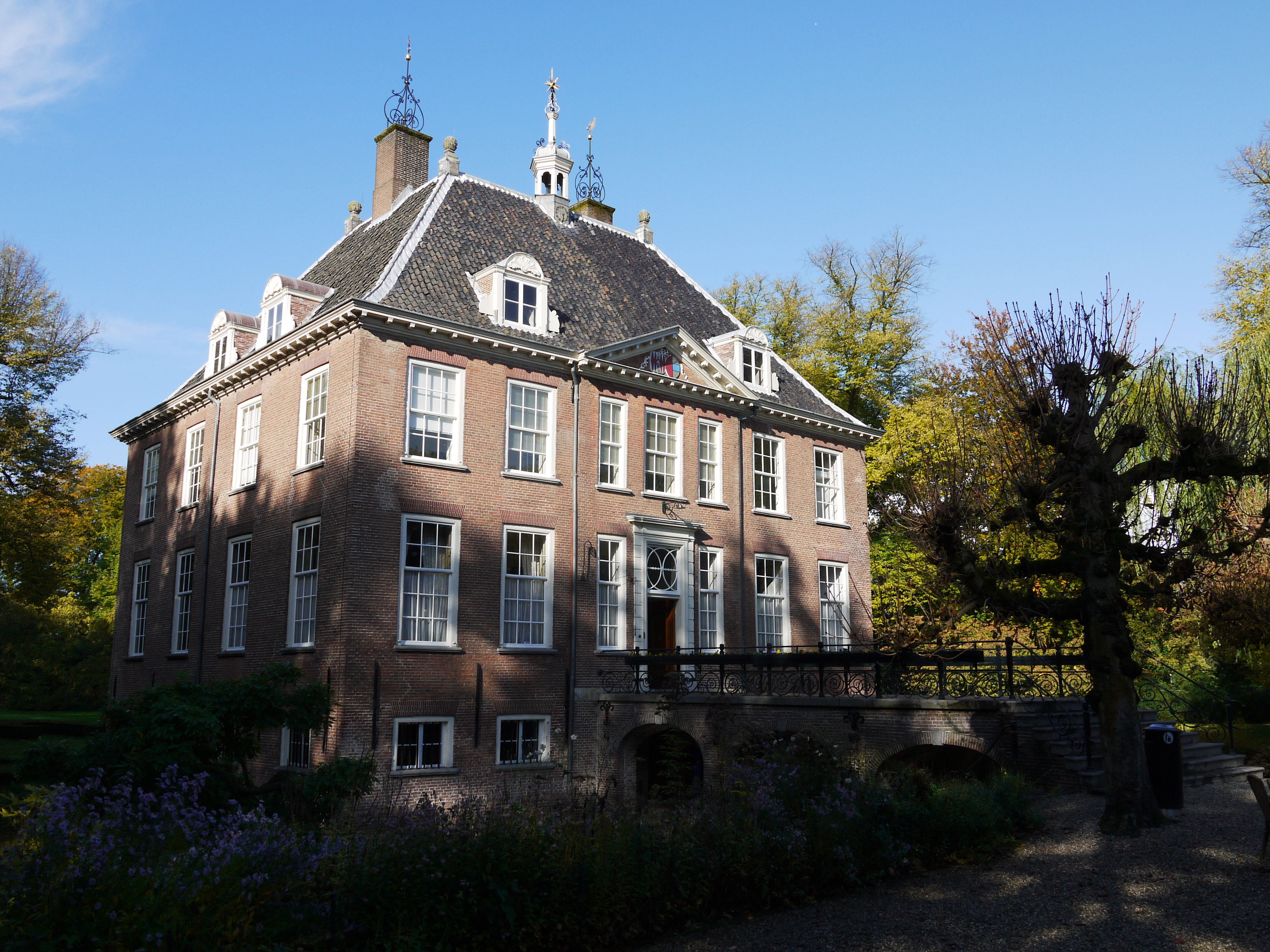 Built 17th century.